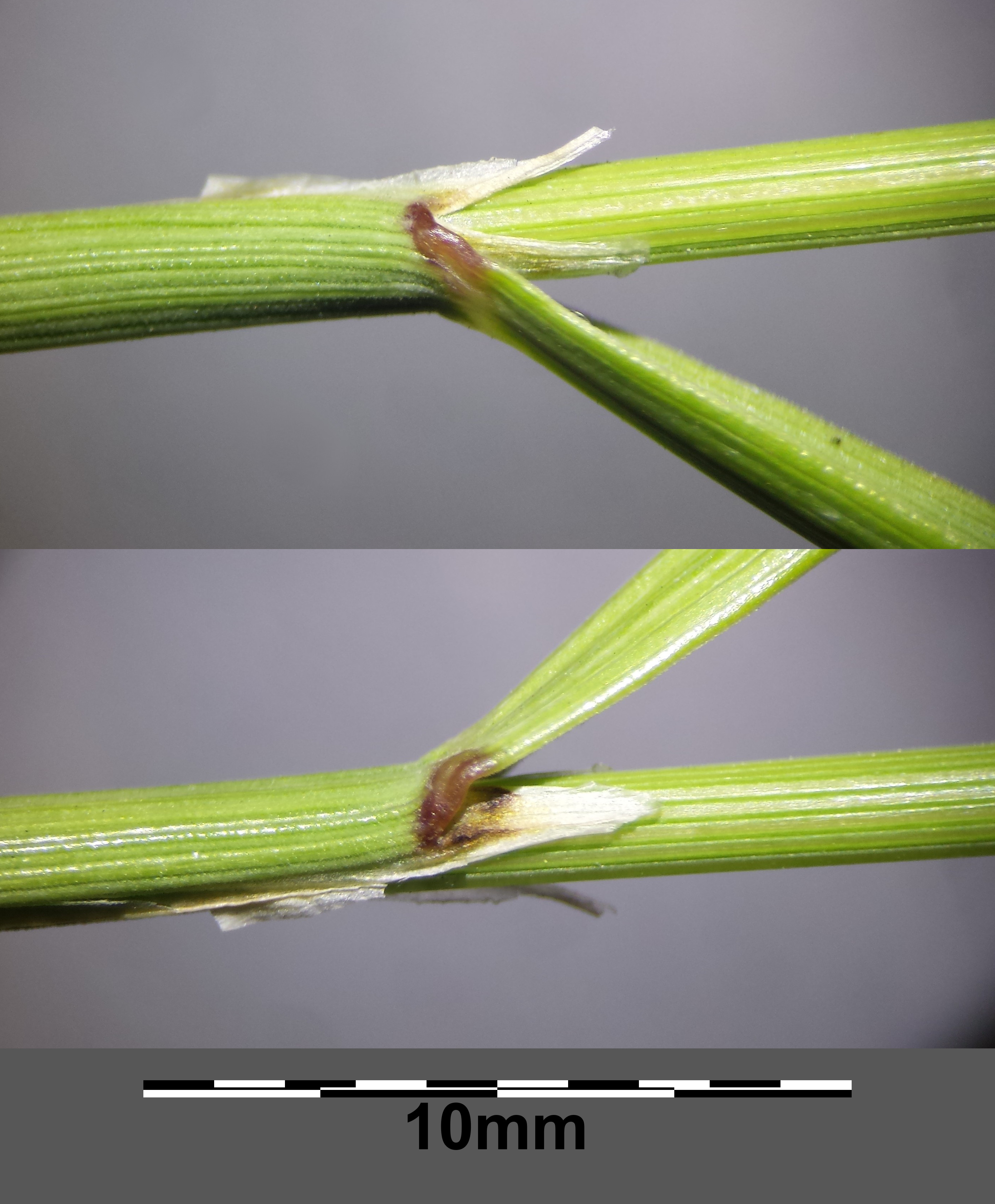 Stem with leaf and ligule Taxonym: Melica ciliata subsp. ciliata ss Fischer et al. EfÖLS 2008 ISBN 978-3-85474-187-9 Location: Neue Donau, district Korneuburg, Lower Austria - ca. 160 m a.s.l. Habitat: stone area